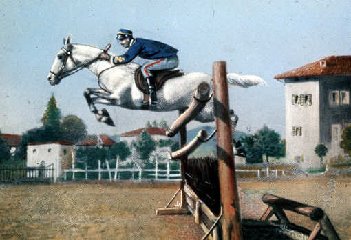 From the drawing of a collectable card representing Gian Giorgio Trissino riding a horse